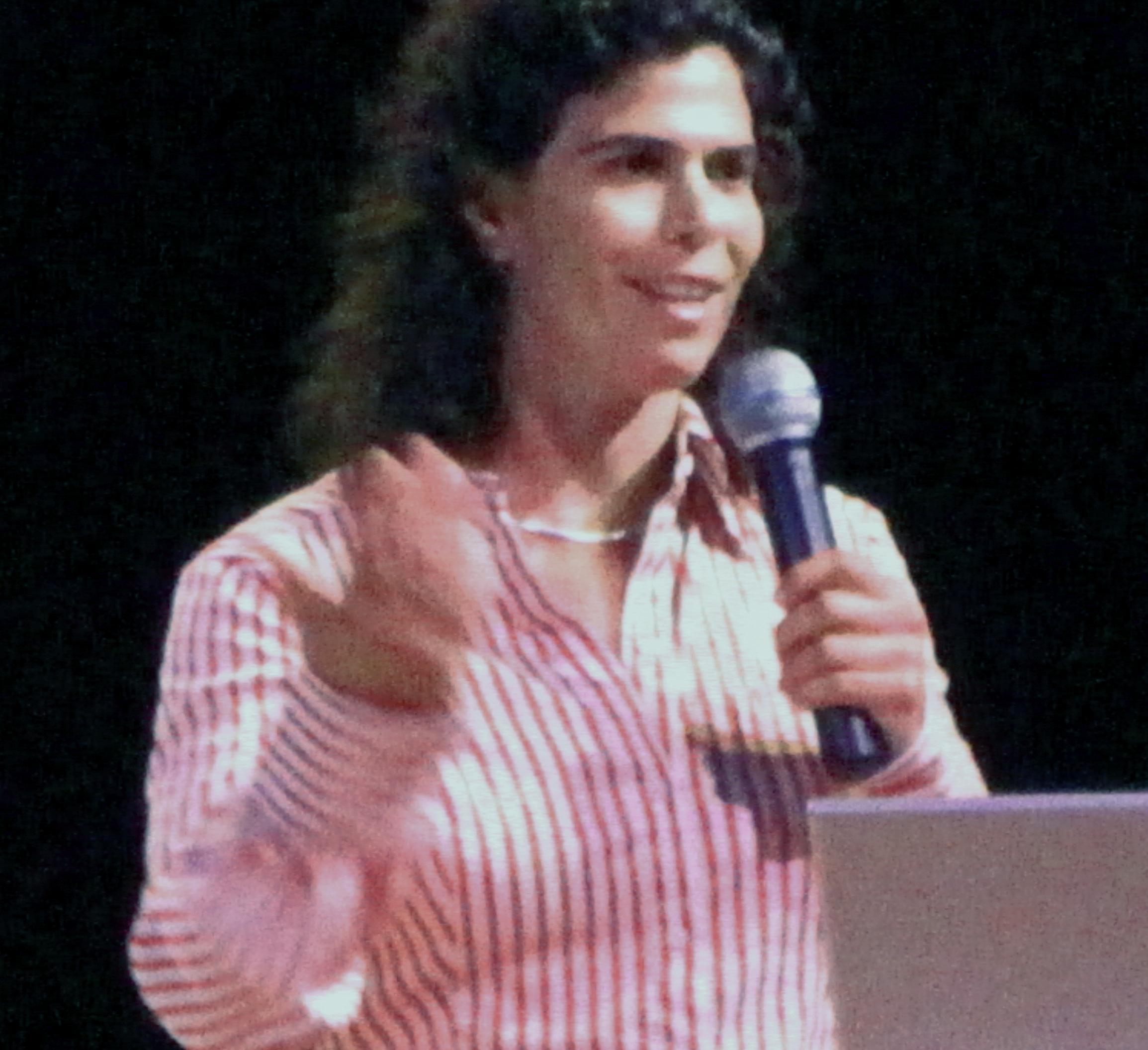 Yael Arad, Israel's first Olympic medalist